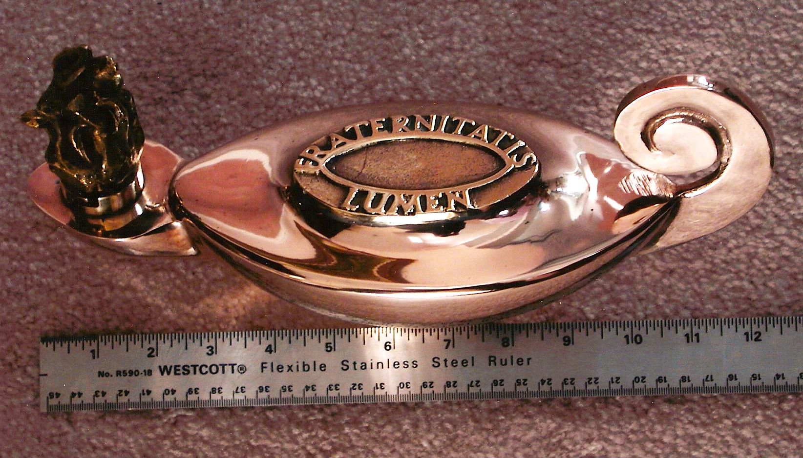 Photo of the Lamp of the Brotherhood